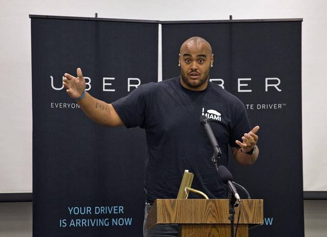 Uber held a community meeting in Broward County in order to drive up the amount of driver's as well as in order to help the community understand the benefits Uber brings to an area.